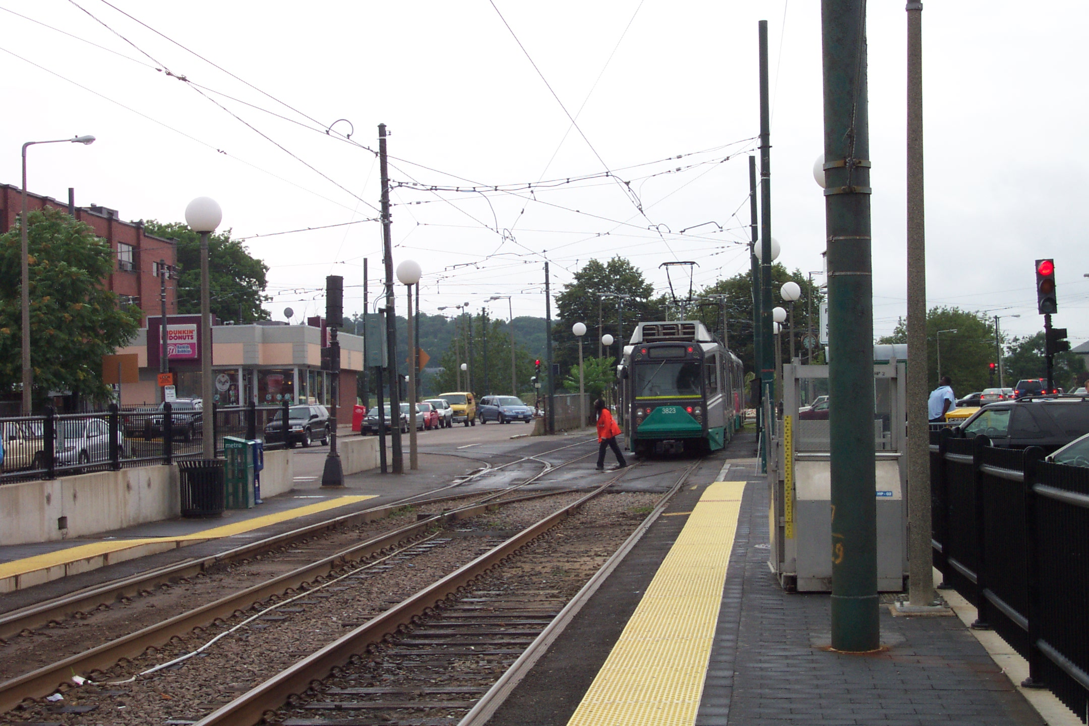 A train changes ends just past Cleveland Circle on the Green Line "C" Branch